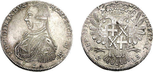 Crusaders. Order of St. John of Jerusalem (Knights of Malta). Ferdinand Hompesch. 1797-1798. AR 30 Tarì (29.64 g, 12h). Dated 1798. F • FERDINANDVS HOMPESCH M • M •, bust of grandmaster left, in knight's armor; pellet below bust HOSPITAL • ET S • SEP • HIER •, crowned double-headed eagle displayed with Hompesch coat-of-arms on breast; date and denomination above. Leaved edge. Restelli & Sammut 8; Schembri 3; Davenport 1611B; KM 345.3. Good VF, toned, some adjustment marks. ($300) Ex Elmen XXV (5 May 1994), lot 225. "The Knights of Malta, descended from the crusading Hospitallers of St. John the Baptist founded by Gerard in Jerusalem before 1110, had held the island of Malta since 1530. The once powerful military order had fallen on hard times, and when Napoleon decided Malta would serve as a fine base of operations for the French Mediterranean fleet the knights were ousted after a brief siege. According to some references, the pellet under the bust marks an issue under French occupation, struck after Hompesch sailed into exile on 18 June 1798. The Knights of Malta still retain sovereignty over property in Rome, and continue to strike ceremonial coins."